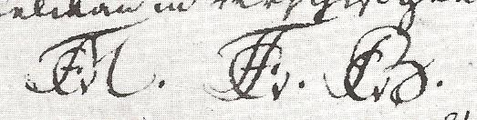 Zirkel (Studentenverbindung) emblems of three Würzburg student corps (from left: Corps Moenania Würzburg, Corps Franconia Würzburg, Corps Bavaria Würzburg) in a protocol book of 1814-1823, entry of 1818